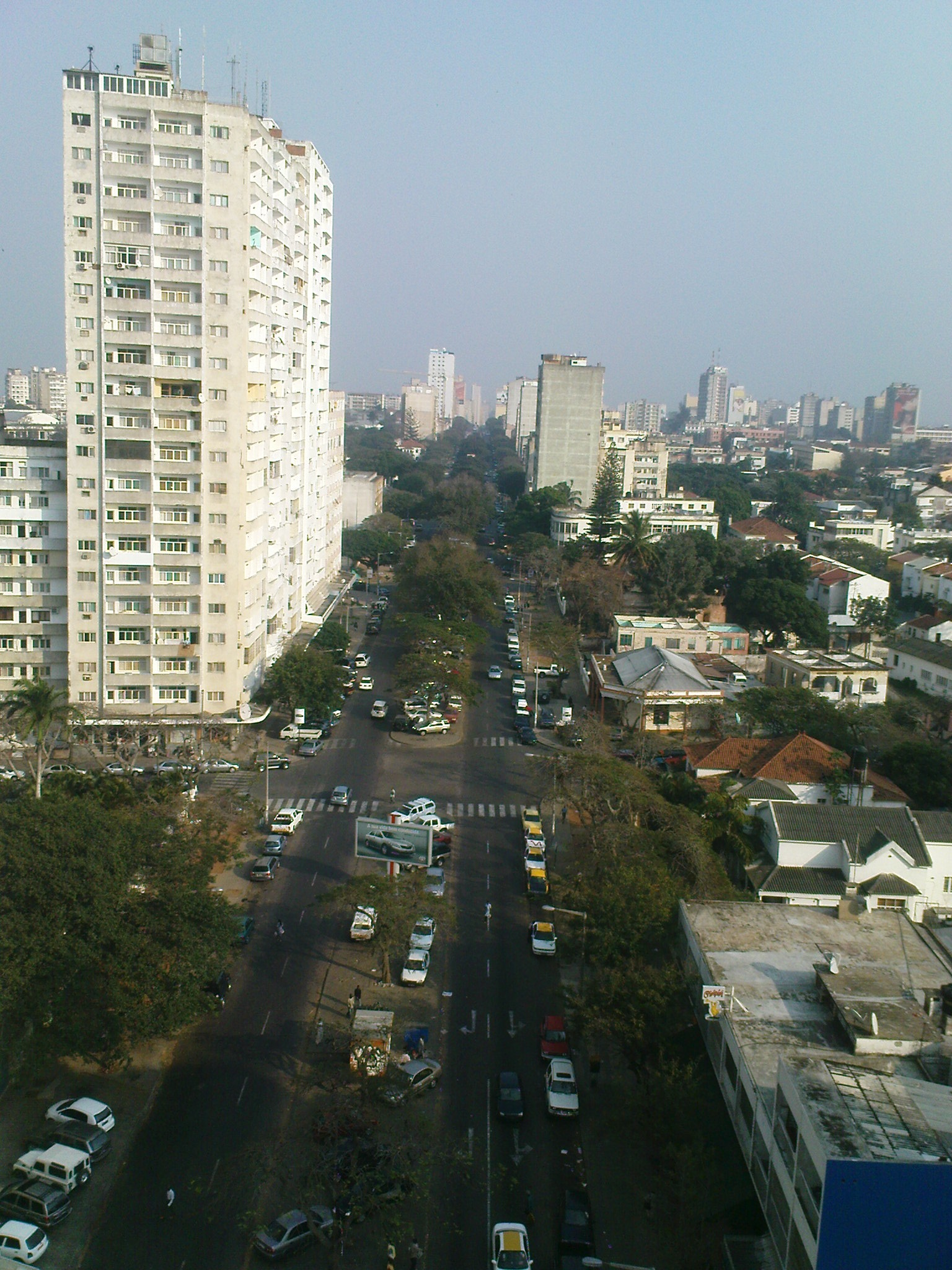 View over Avenida 24 de Julho, Maputo, Mozambique